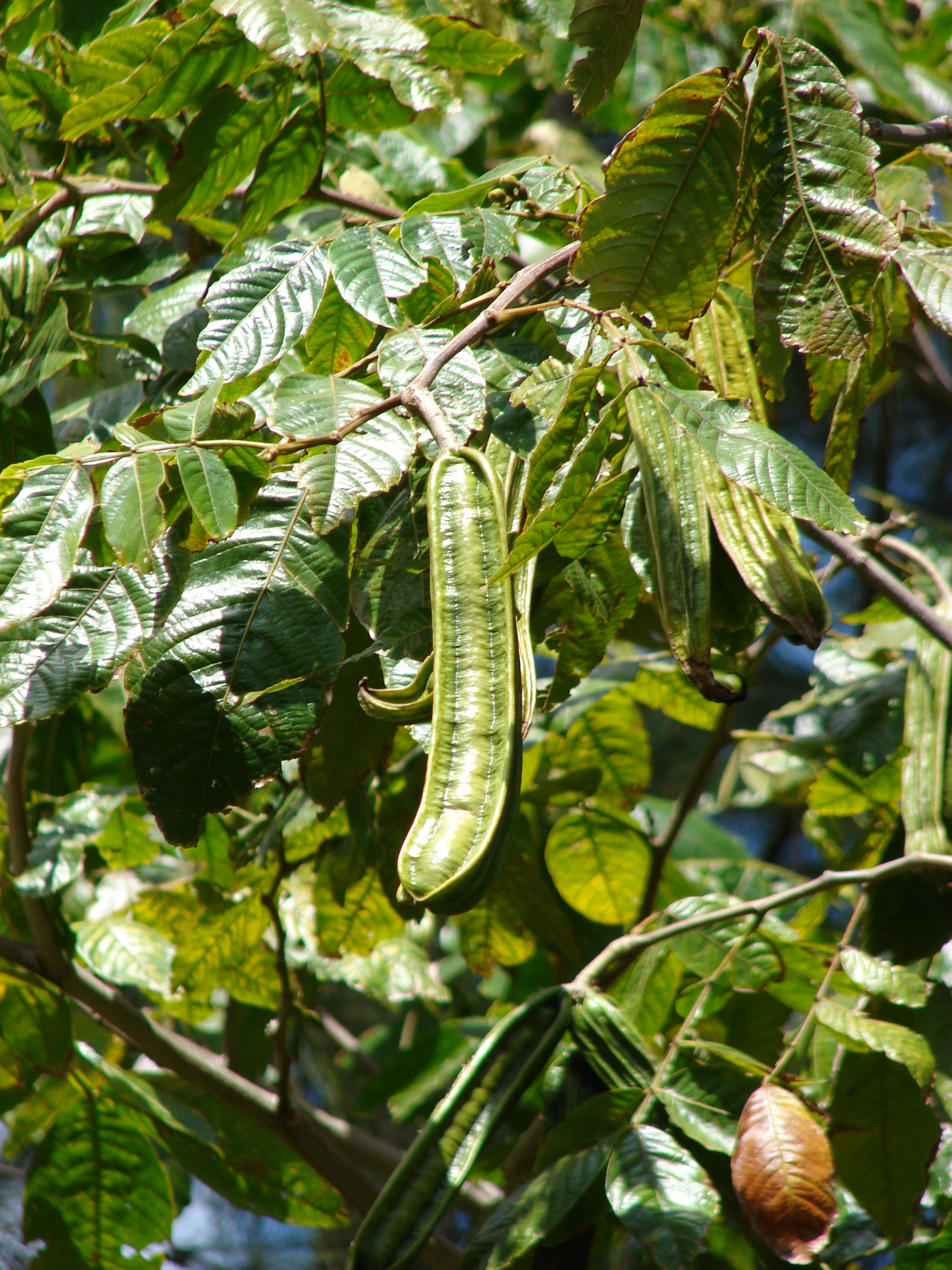 Inga feuillei (leaves and seedpods). Location: Maui, Olinda